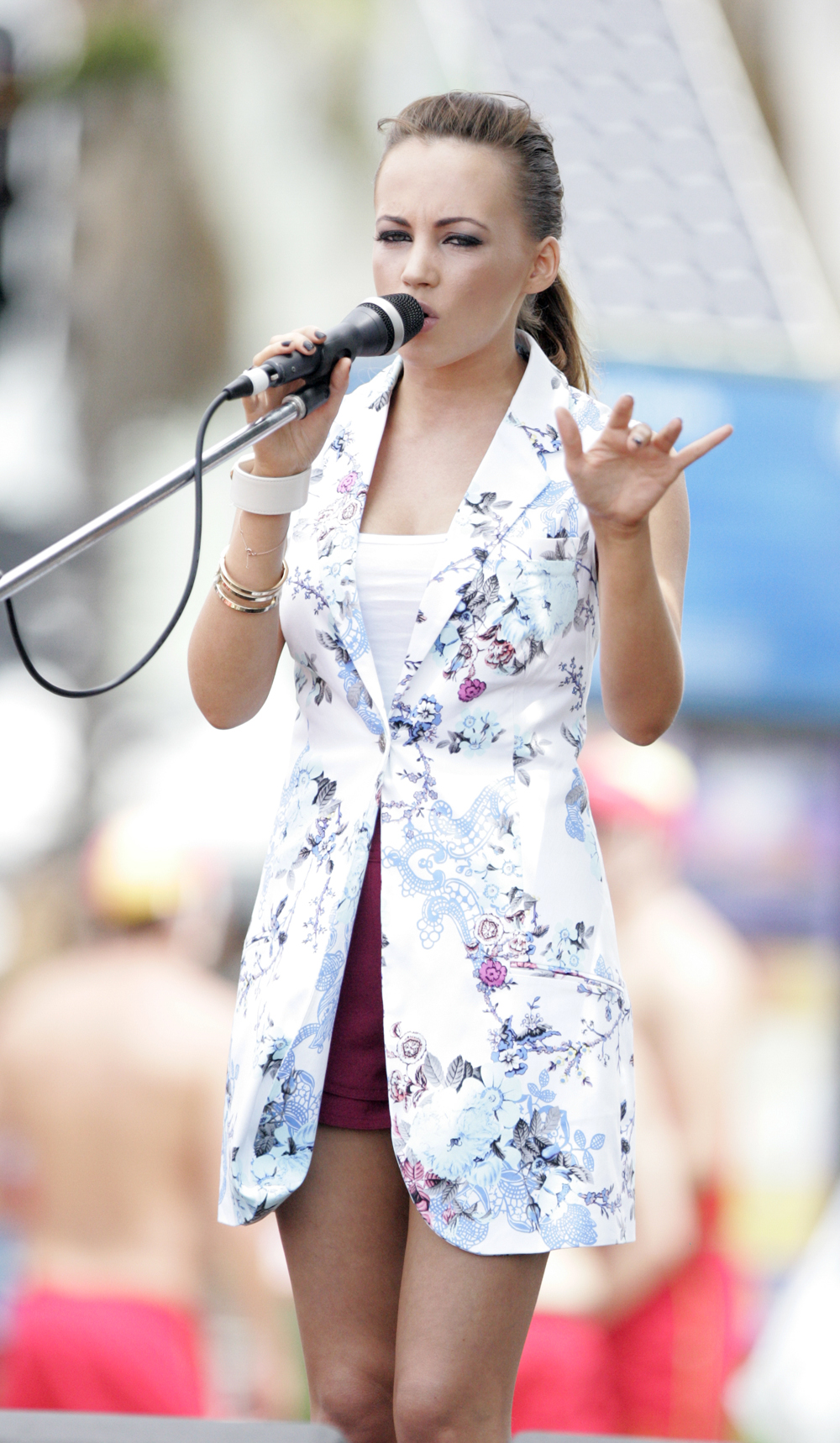 Samantha Jade performs at Sydney's Bondi Beach